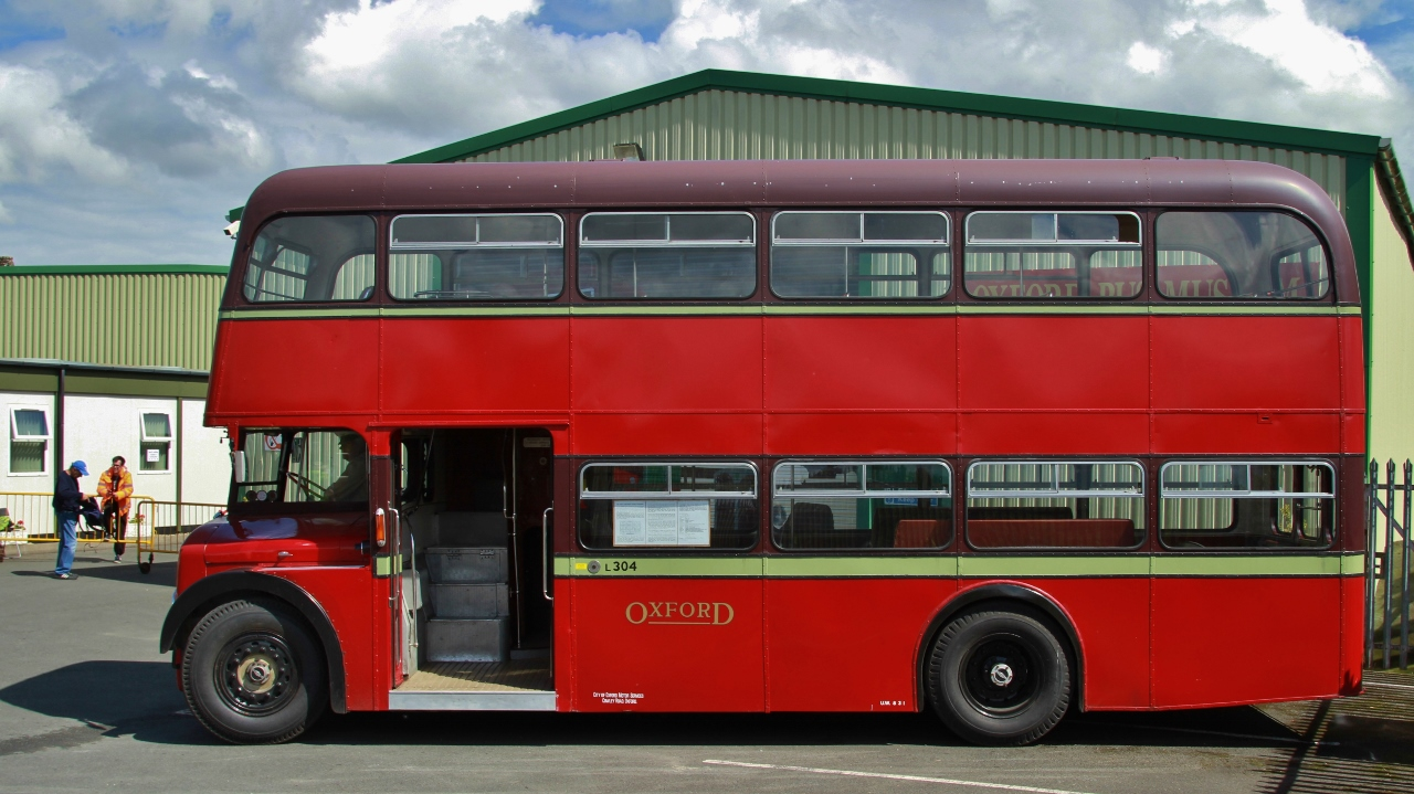 1961 Dennis Loline II bus with East Lancashire Coachworks body, registration mark 304 KFC, at Oxford Bus Museum in Long Hanborough, Oxfordshire. The bus was operated by City of Oxford Motor Services, fleet number 304.